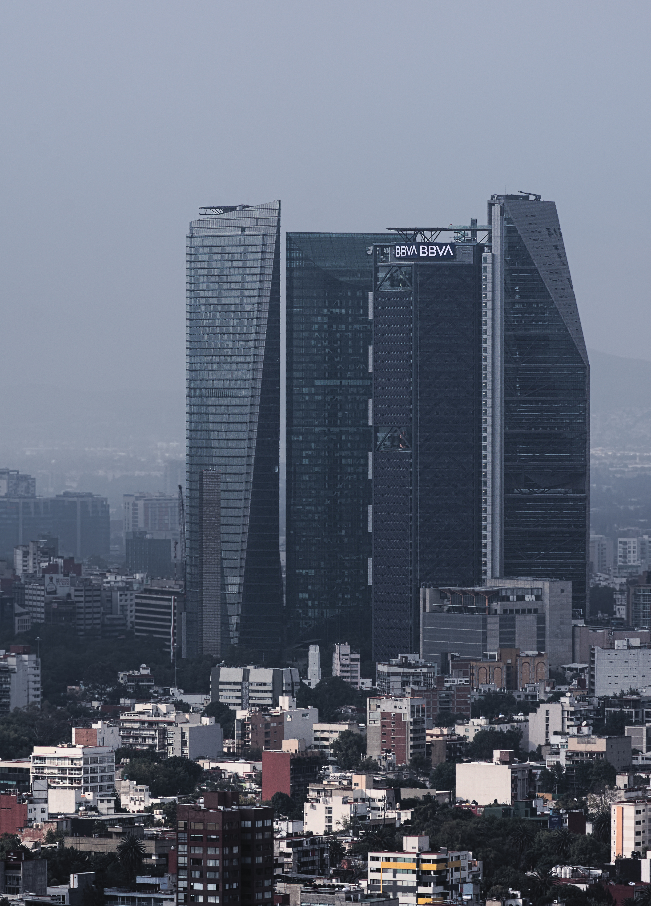 Skyscrapers in Reforma Avenue, view from Wordl Trade Center, Mexico City